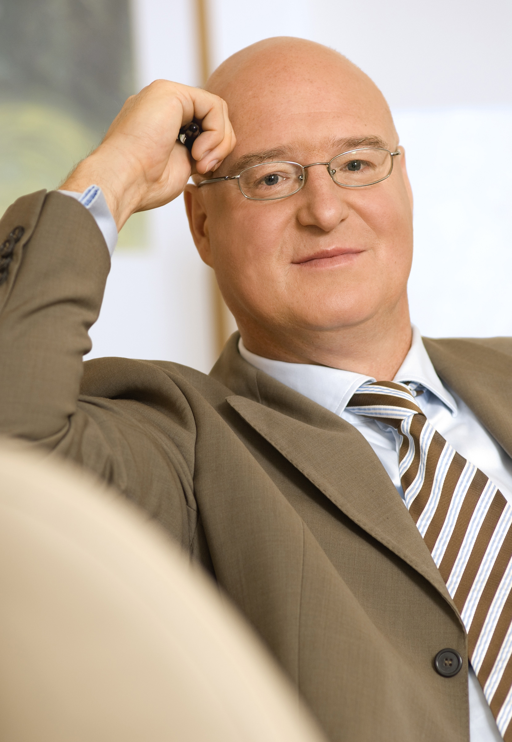 Leadership & Management Expert, Author